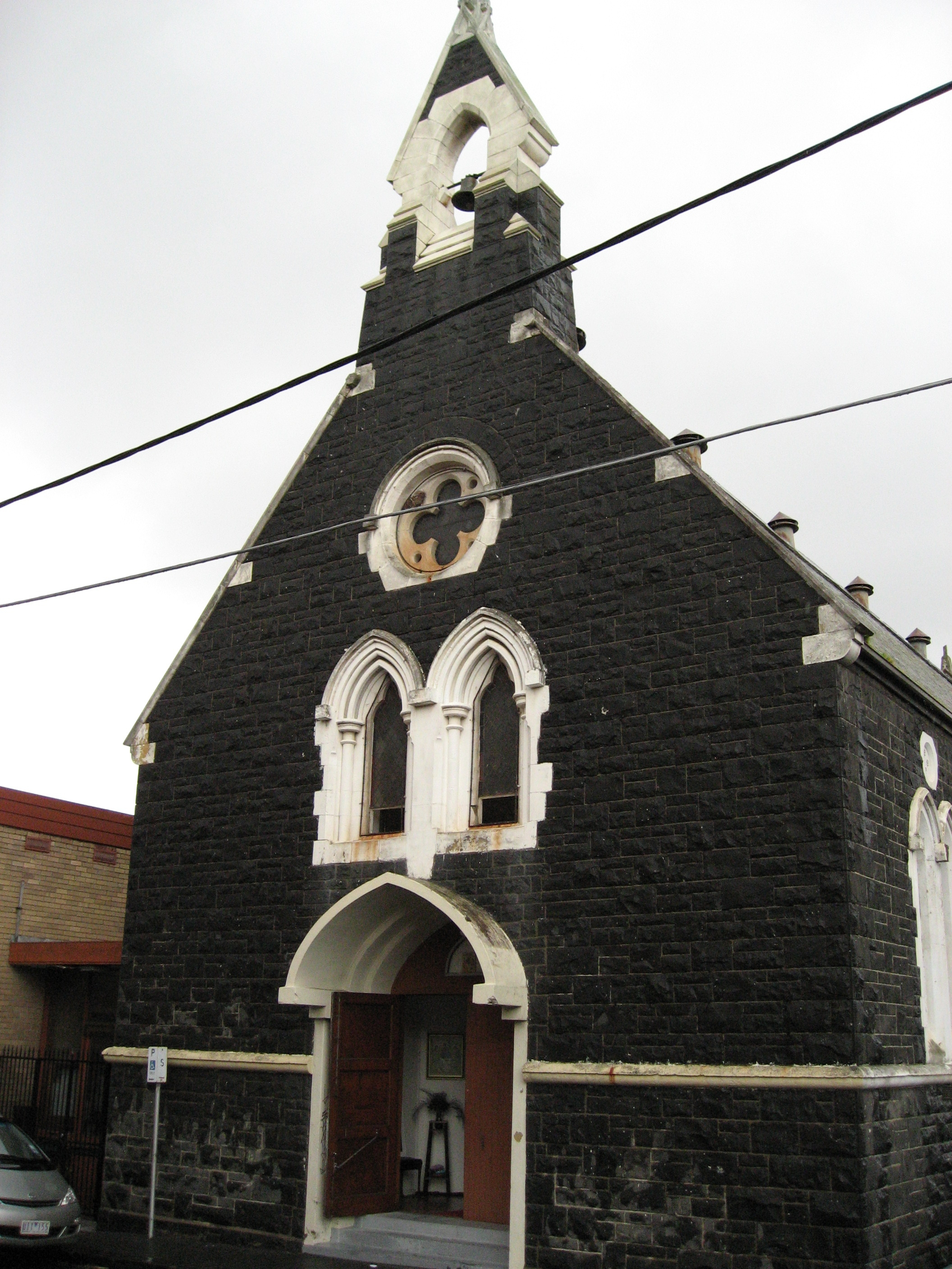 Old Holy Virgin Protection Cathedral in Collingwood, Melbourne, Australia.